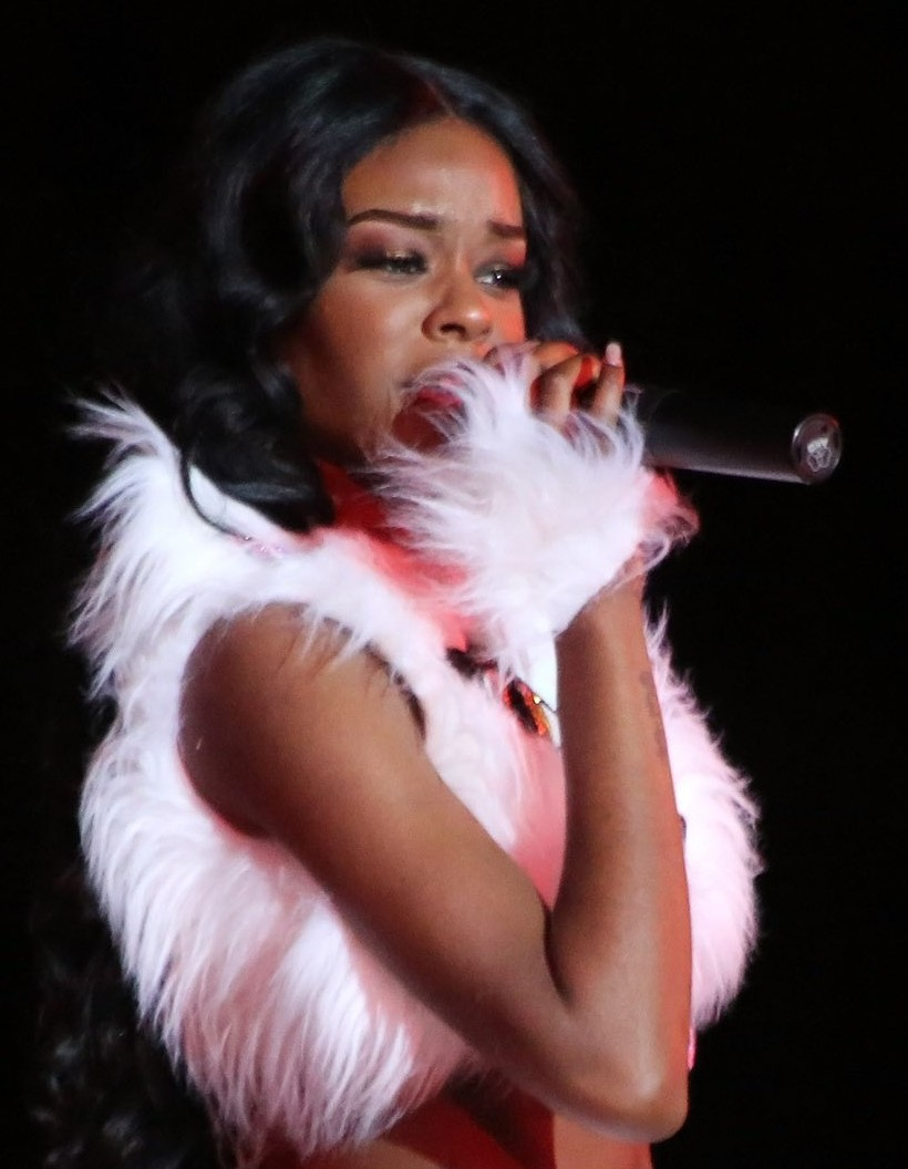 Azealia Banks, opening show of Life Ball 2013 at the city hall of Vienna, Vienna, Austria.